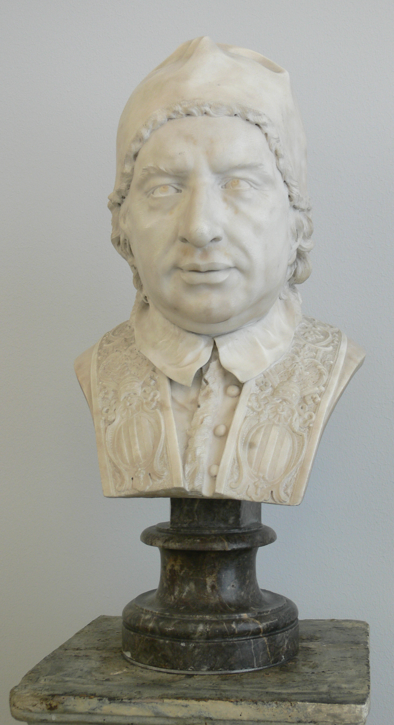 Pietro Bracci: Pope Benedict XIV Lambertini, marble. Skulpturensammlung (inv. no. 345, acquired in 1873), Bode-Museum Berlin.